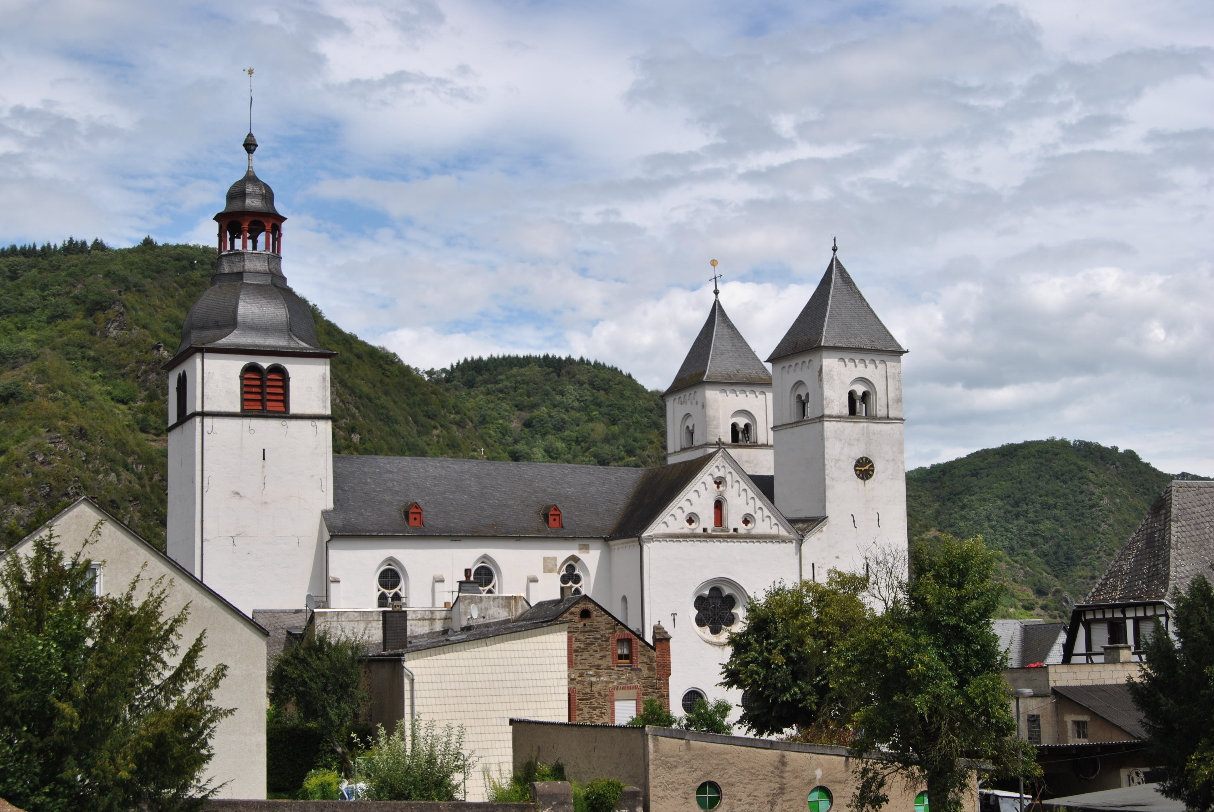 This photograph was taken with a Nikon D3000 This is a photograph of an architectural monument. Treis-Karden, St. Castor